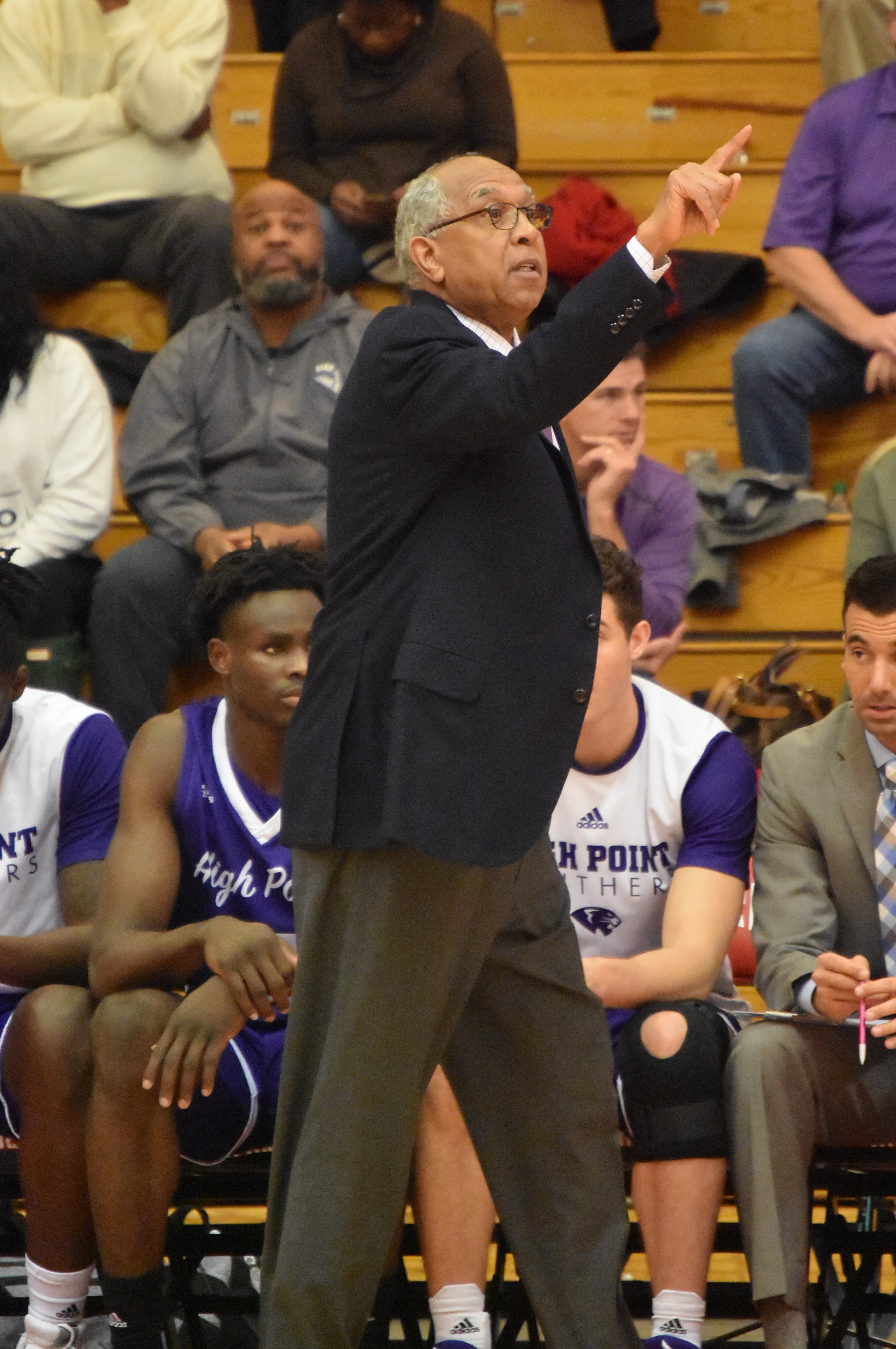 Coach Tubby Smith lead the Kentucky Wildcats to the 1998 NCAA Basketball Championship and he is the current Head Coach at his Alma Mater, High Point University who was at the Dedmon Center to Battle the Radford Highlanders.